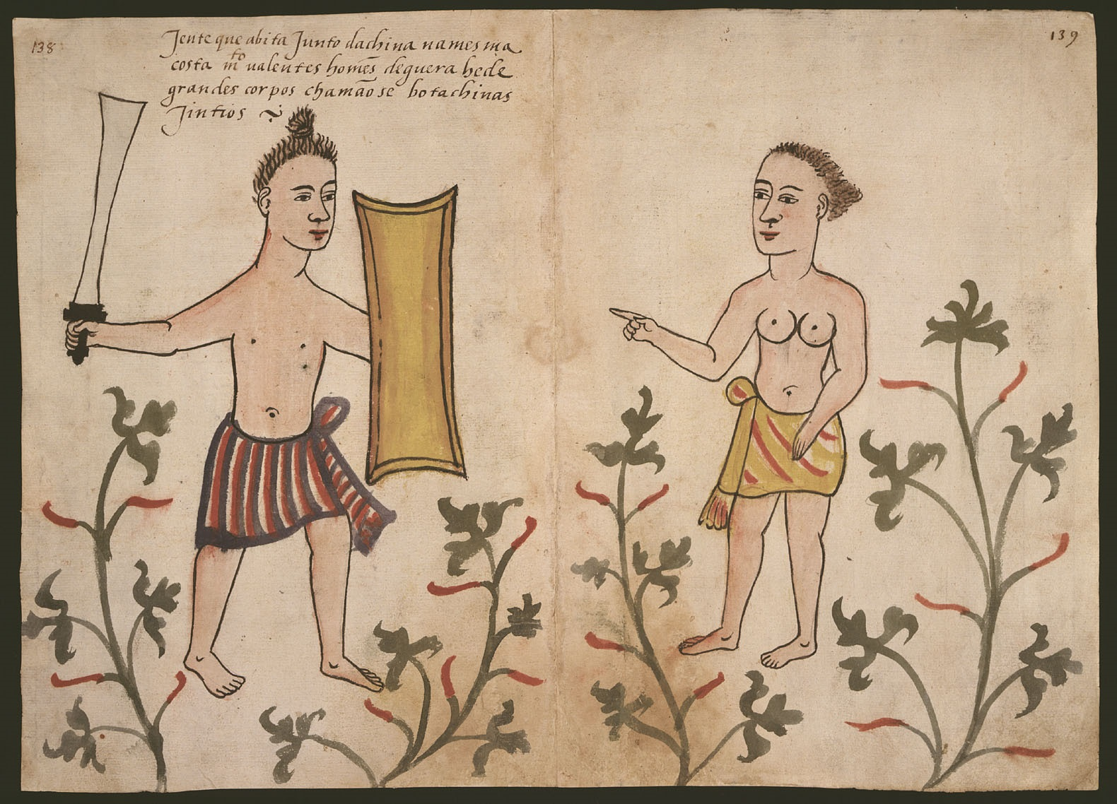 Anonymous 16th century Portuguese illustration from the Códice Casanatense, depicting inhabitants from the island of Halmahera also known as Gilolo. The inscription reads: "People that inhabit close to China in it's same coast [sic] very valiant men in war and of great bodies, called botachinas; gentiles".